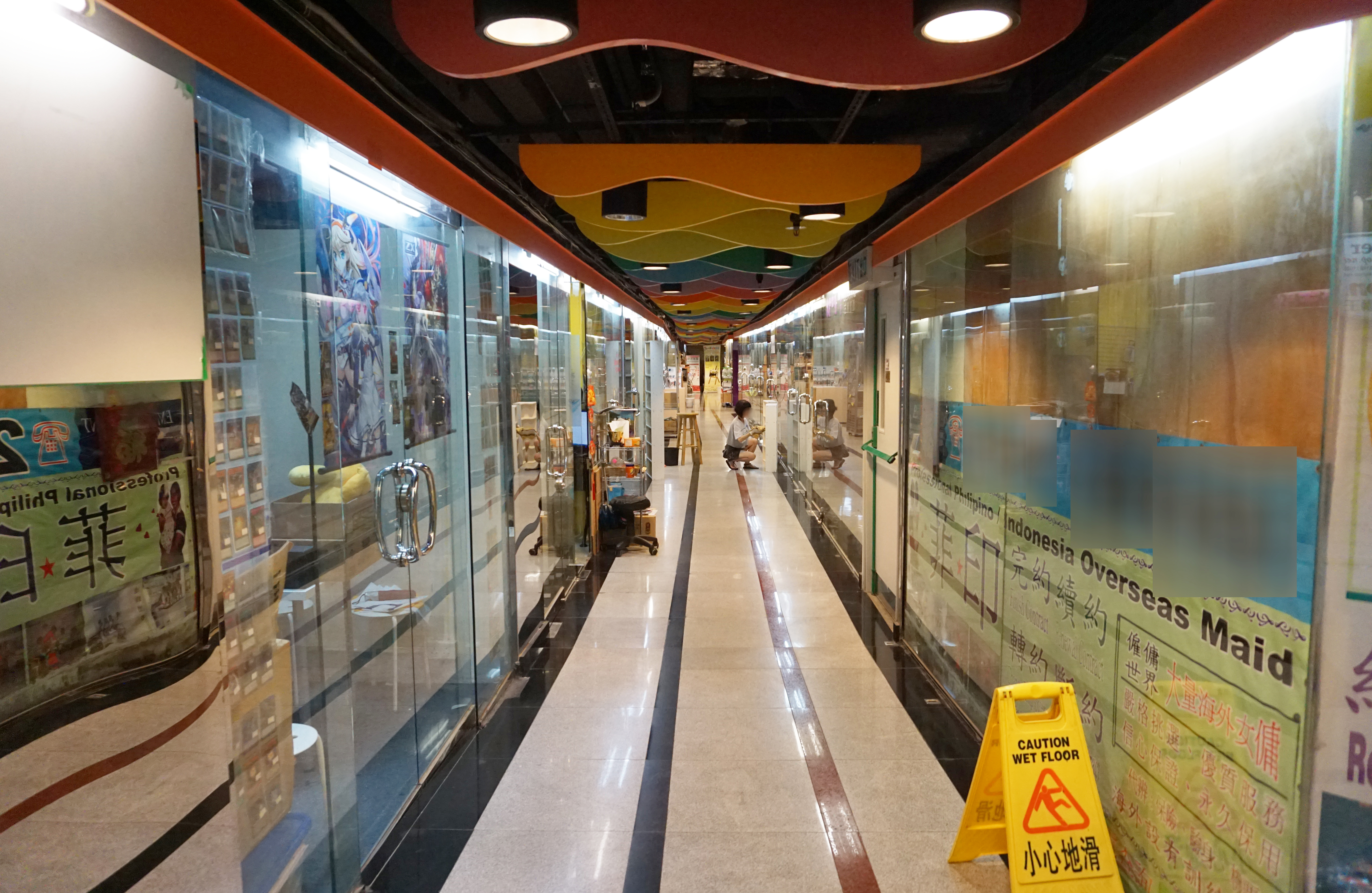 New Trend Plaza in Fortress Hill, Hong Kong.